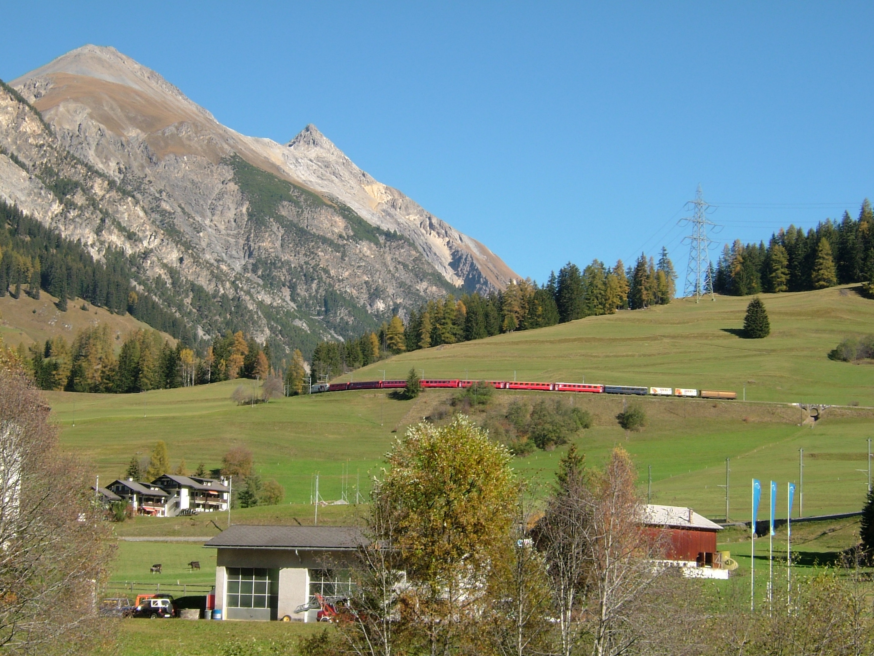 Albula RailwaySouthbound train heading for Plaz loop tunnel